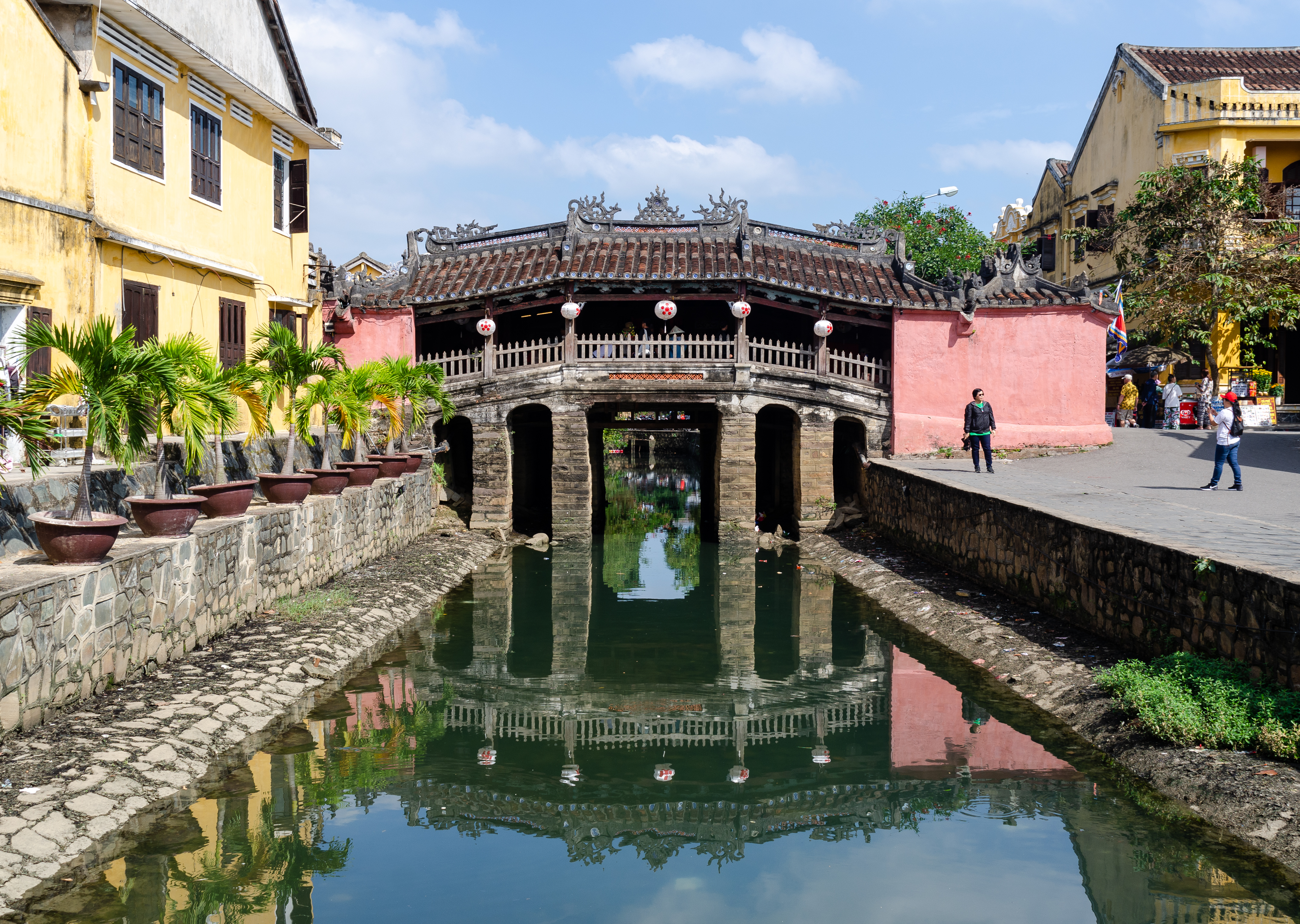 Hội An (Vietnam) – World Heritage Site Hoi An Ancient Town – Chùa Cầu, “Japanese Covered Bridge” with temple – view from a southern bridge